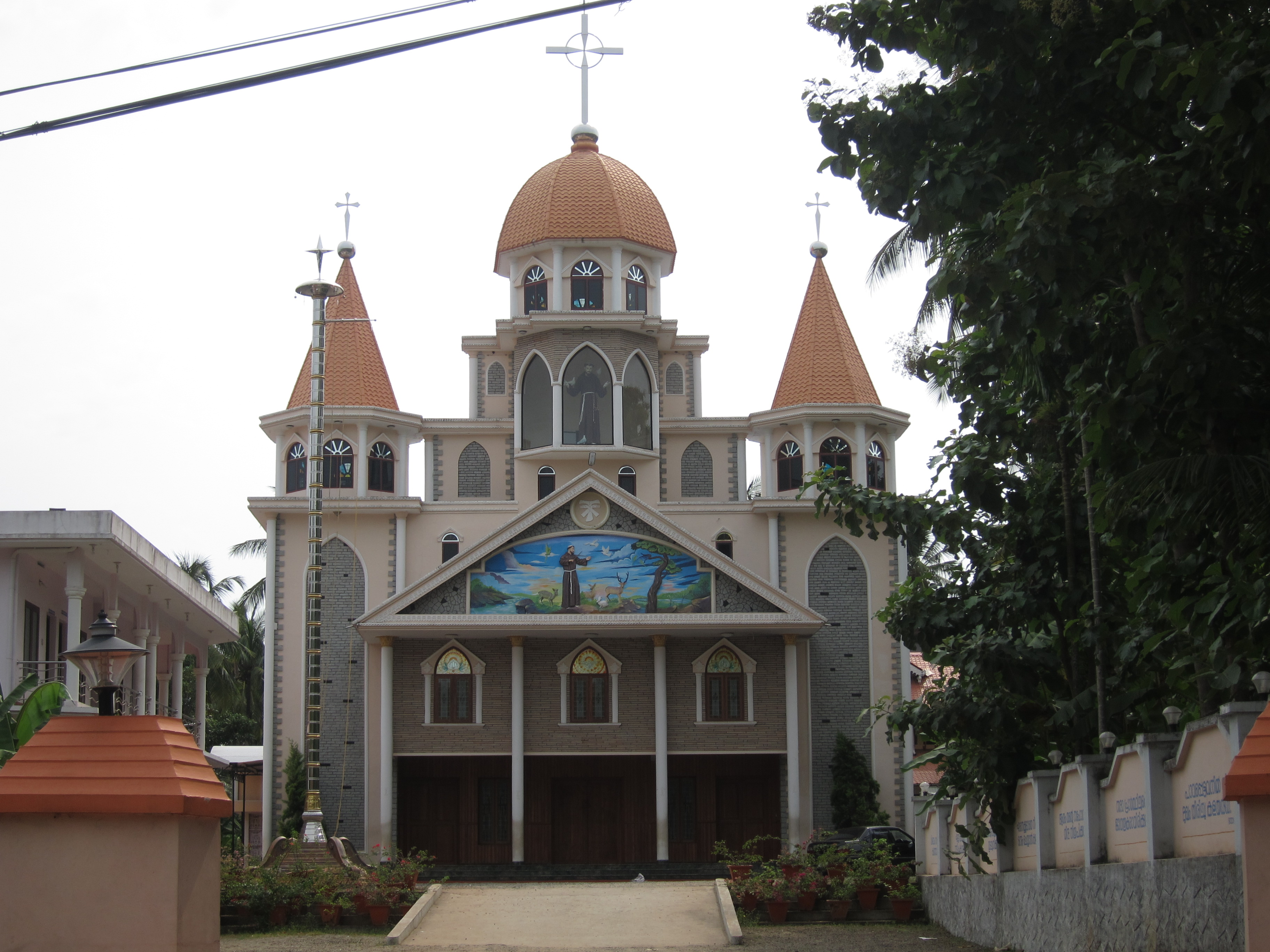 St. Francis Asisi Church, Elinjipra, Irinjalakuda Diocese, Thrissur, On the way from Chalakudy to Athirappally, Bethelem Capuchin Ashram, and MInor Seminary, സെന്റ് ഫ്രാൻസീസ് അസ്സീസി ചർച്ച്, എലിഞ്ഞപ്ര, ഇരിങ്ങാലക്കുട രൂപത, ത്രിശ്ശൂർ ജില്ല, ചാലക്കുടി - അതിരപ്പള്ളി വഴിയിൽ, ബതലഹേം കപ്പൂച്ച്യൻ ആശ്രമം, മൈനർ സെമിനാരി